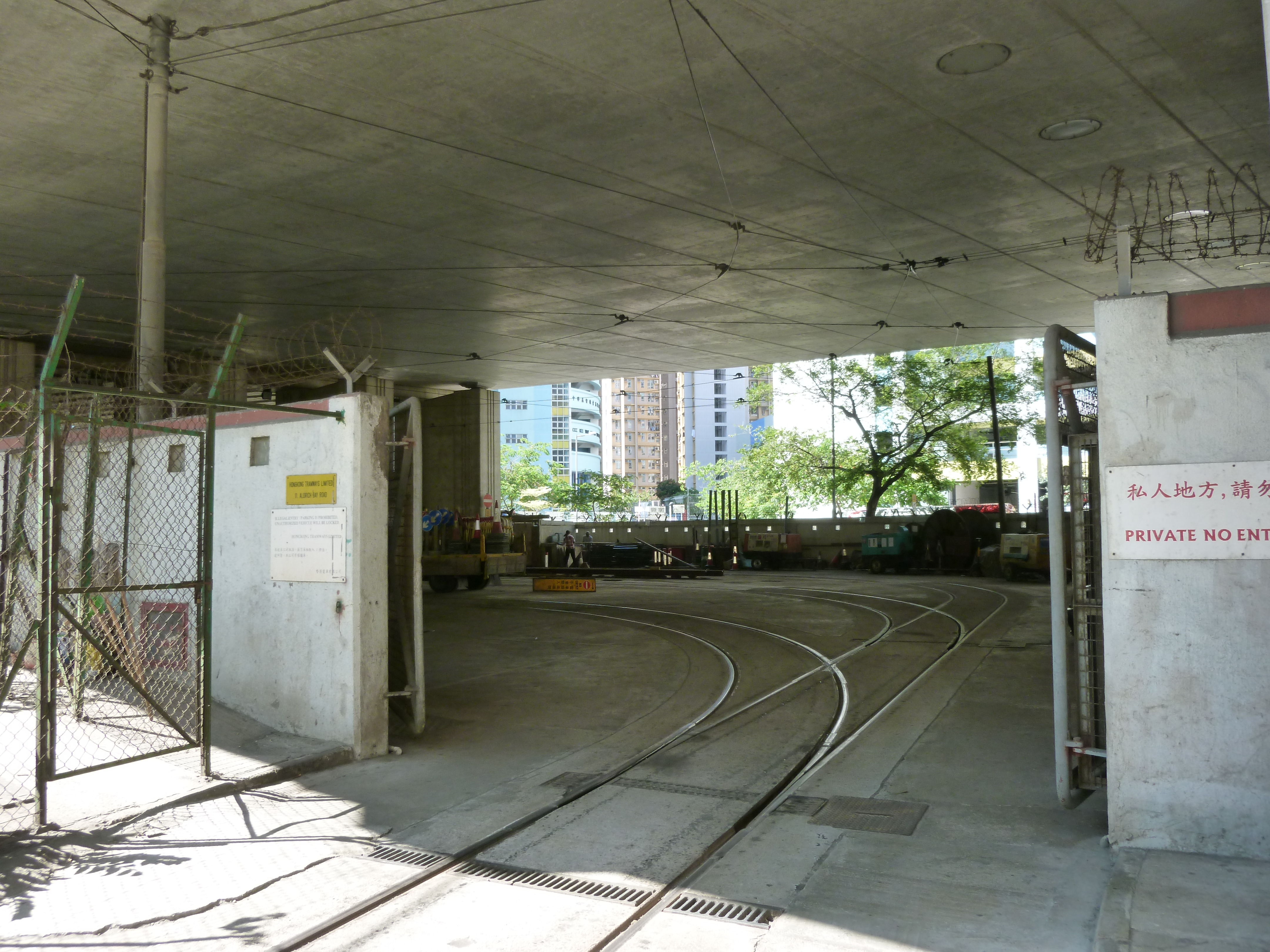 Sai Wan Ho Depot (11 Aldrich Bay Road, Sai Wan Ho, Shau Kei Wan, Hong Kong)中文（香港）: 西灣河電車廠 (香港東區西灣河愛秩序灣道11號)